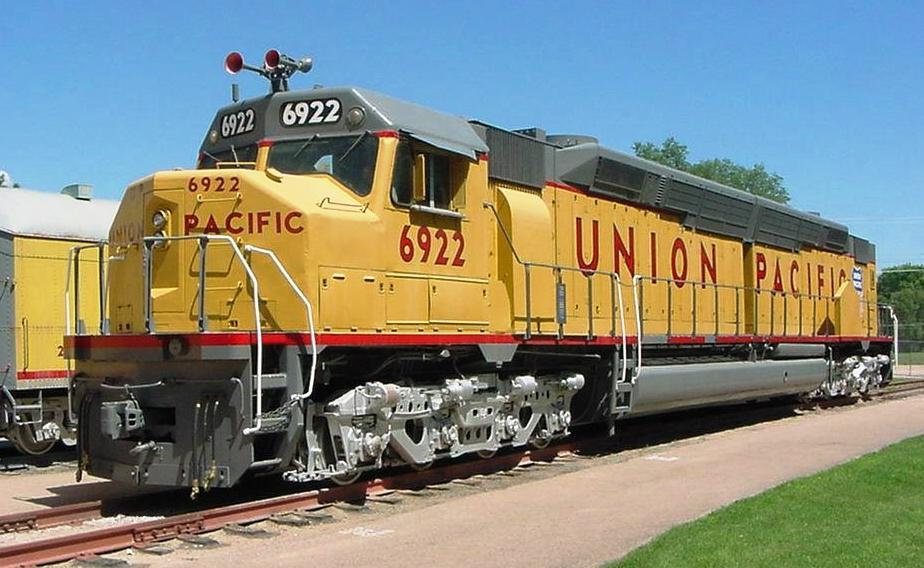 Union Pacific Centennial 6922